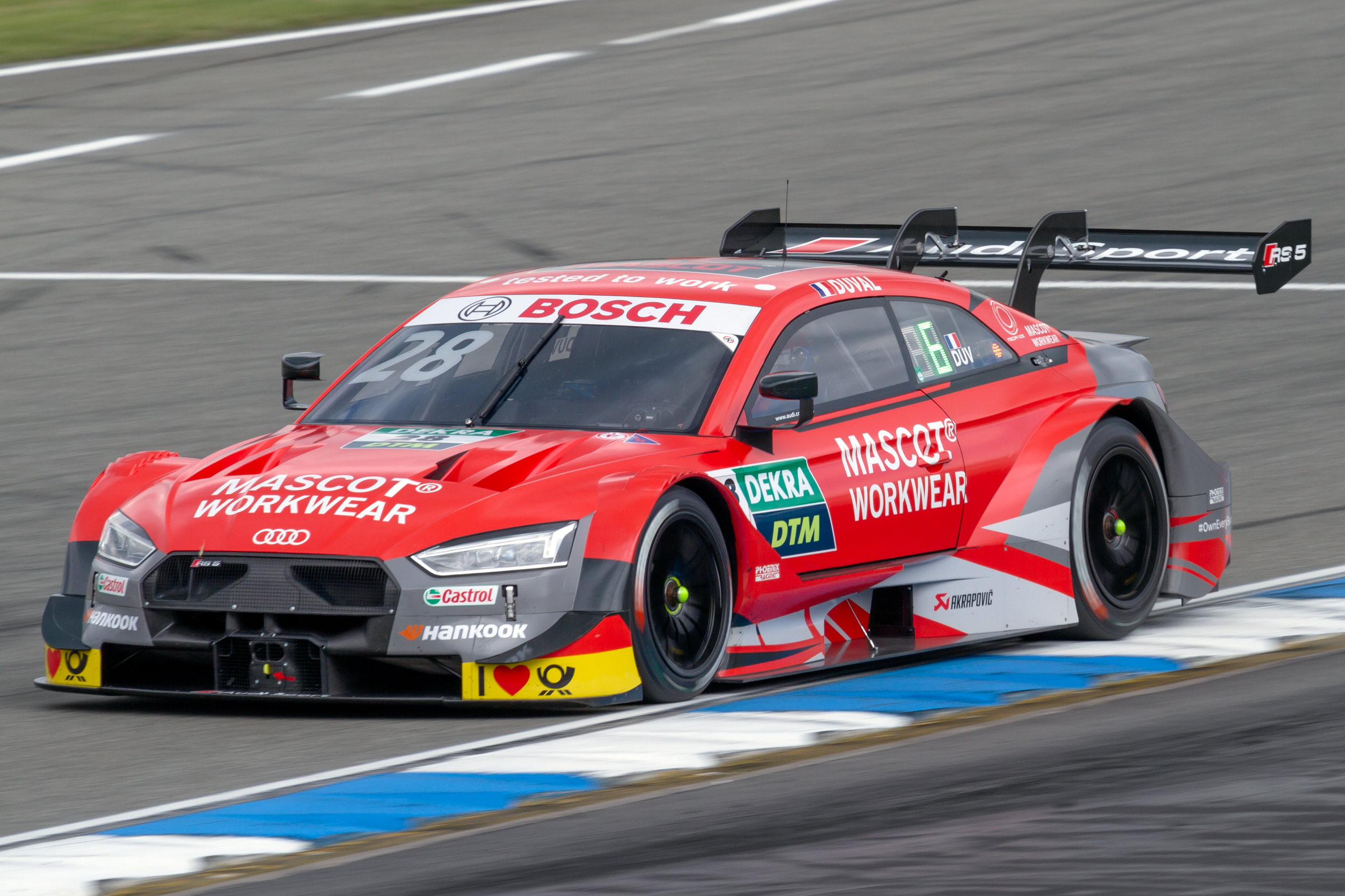 2019 DTM Hockenheimring (May): Audi RS5 Turbo DTM of Loïc Duval